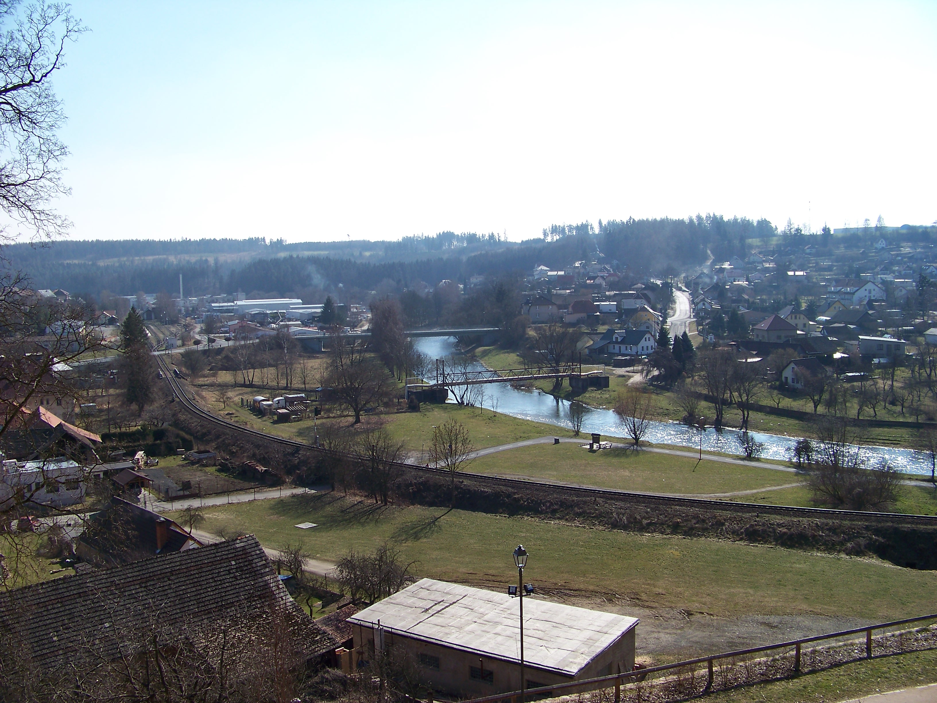 Zruč nad Sázavou, Kutná Hora District, Central Bohemian Region, the Czech Republic. A view from the castle, Sázava river.